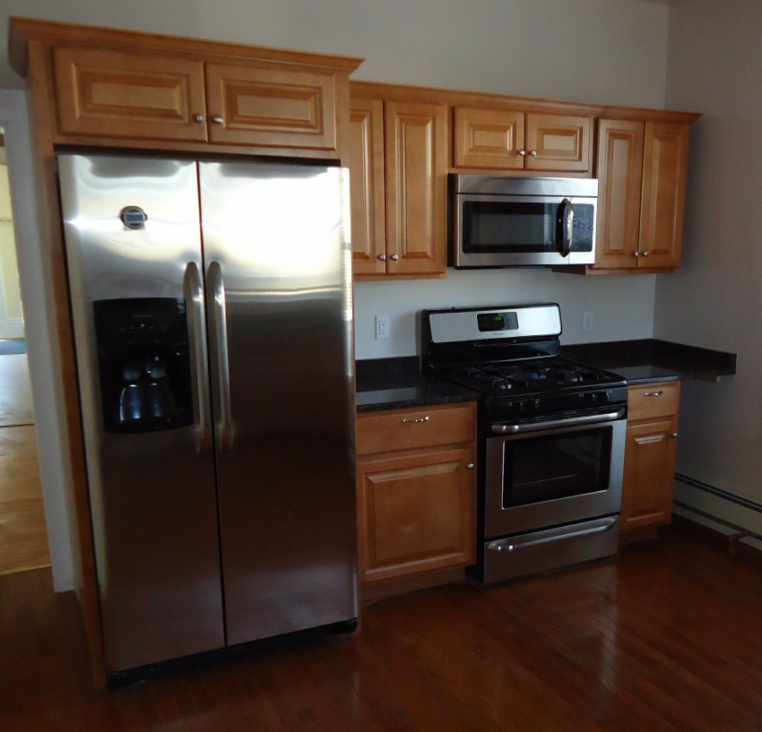 Kitchen with new cabinets, appliances, floor.